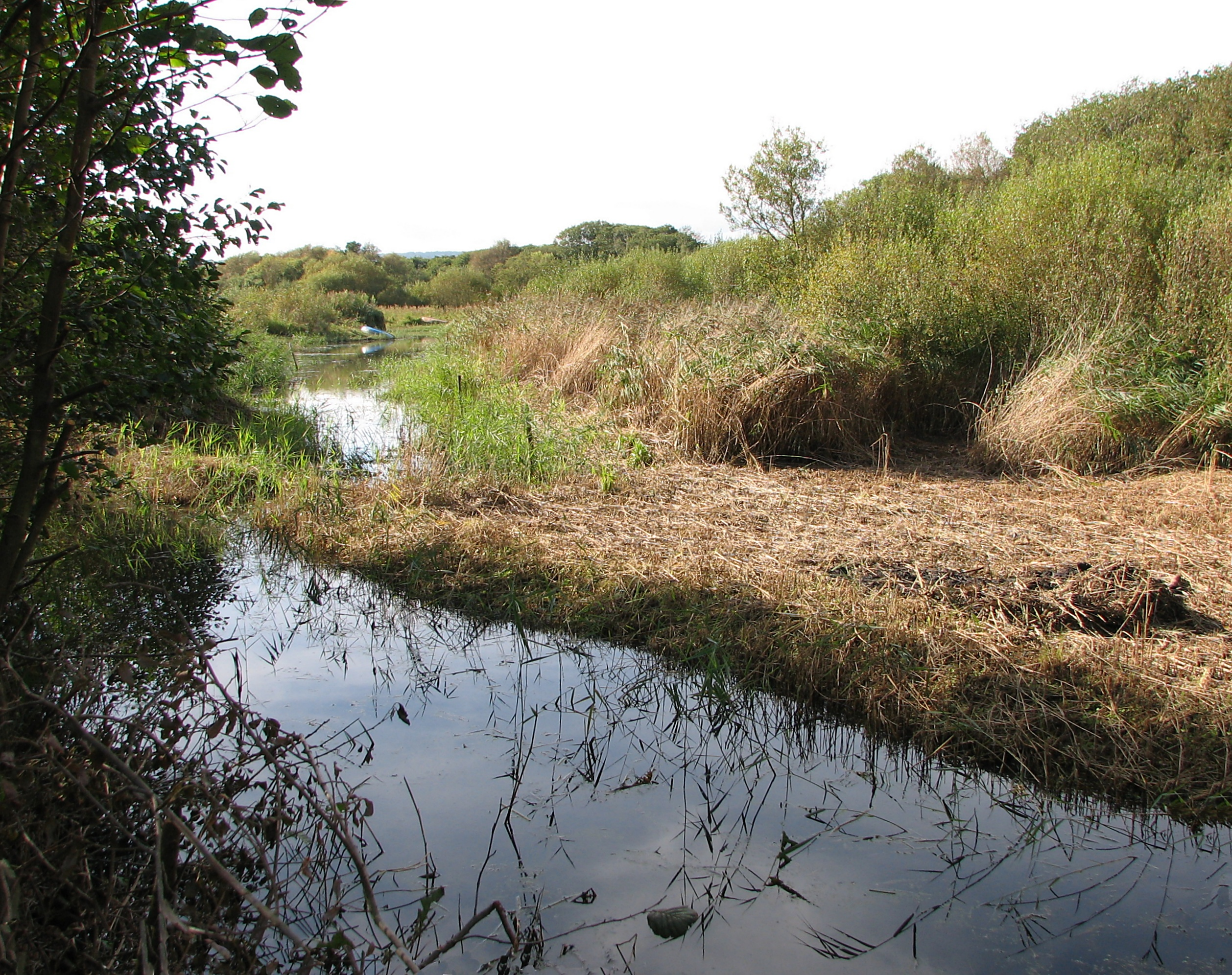 One of the fresh water ponds in Dawlish Warren (Devon, England) nature reserve.